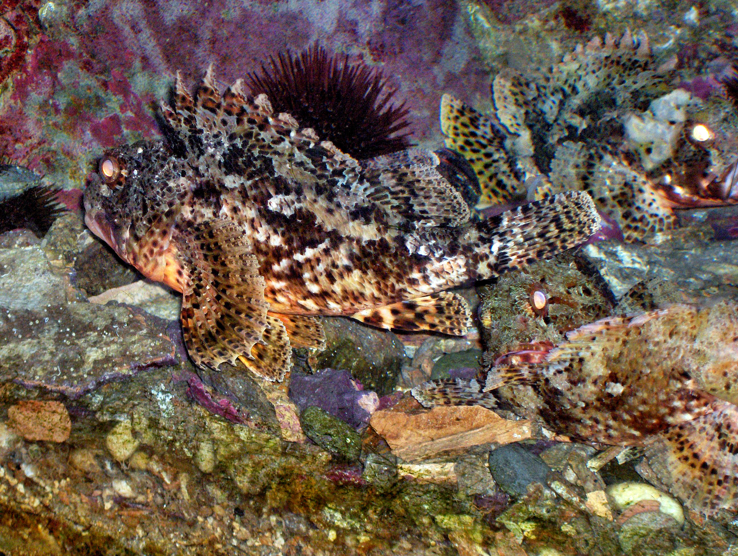 Pustulous scorpionfish (Scorpaena notata); Musée Océanographique de Monaco